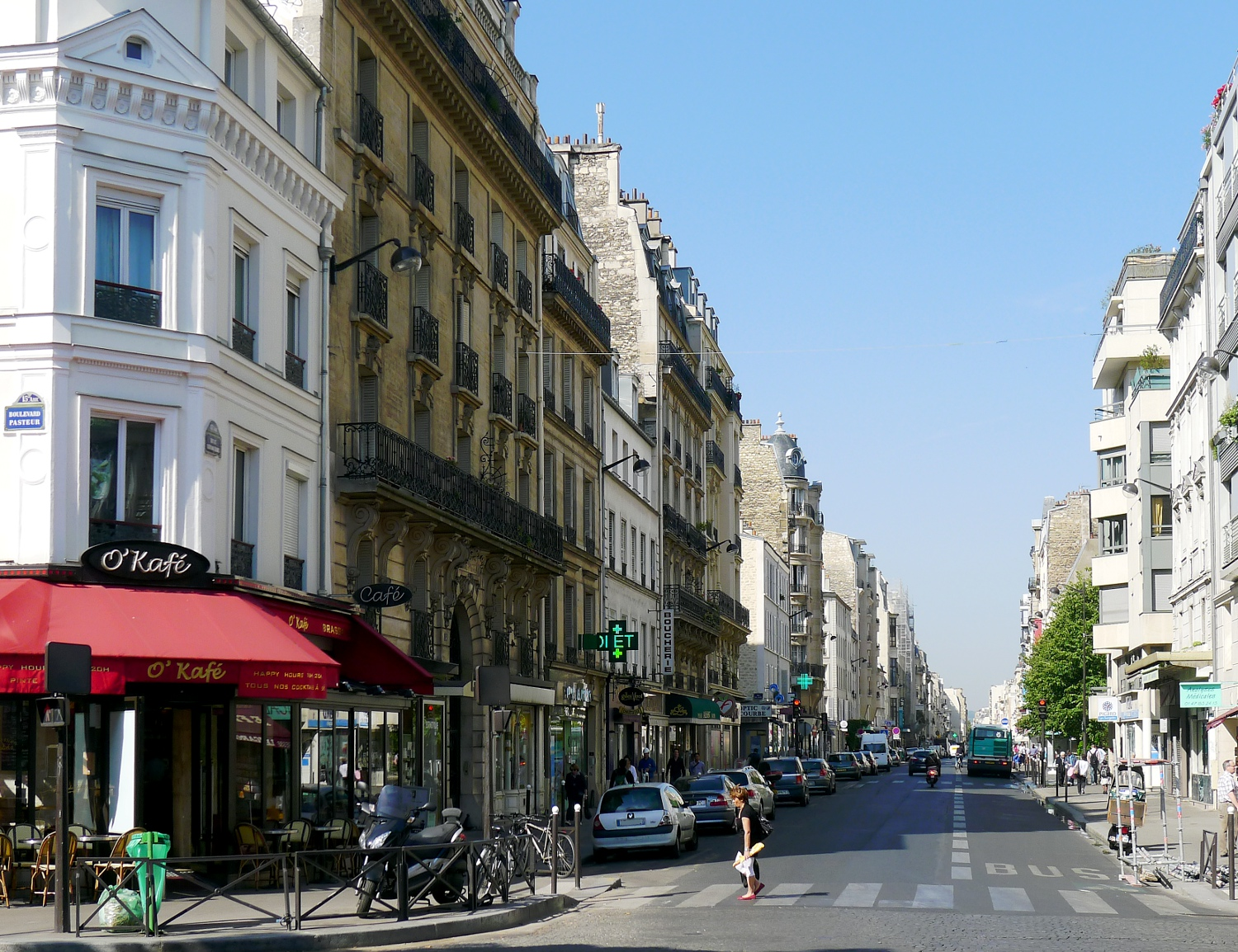 Lecourbe street - Paris